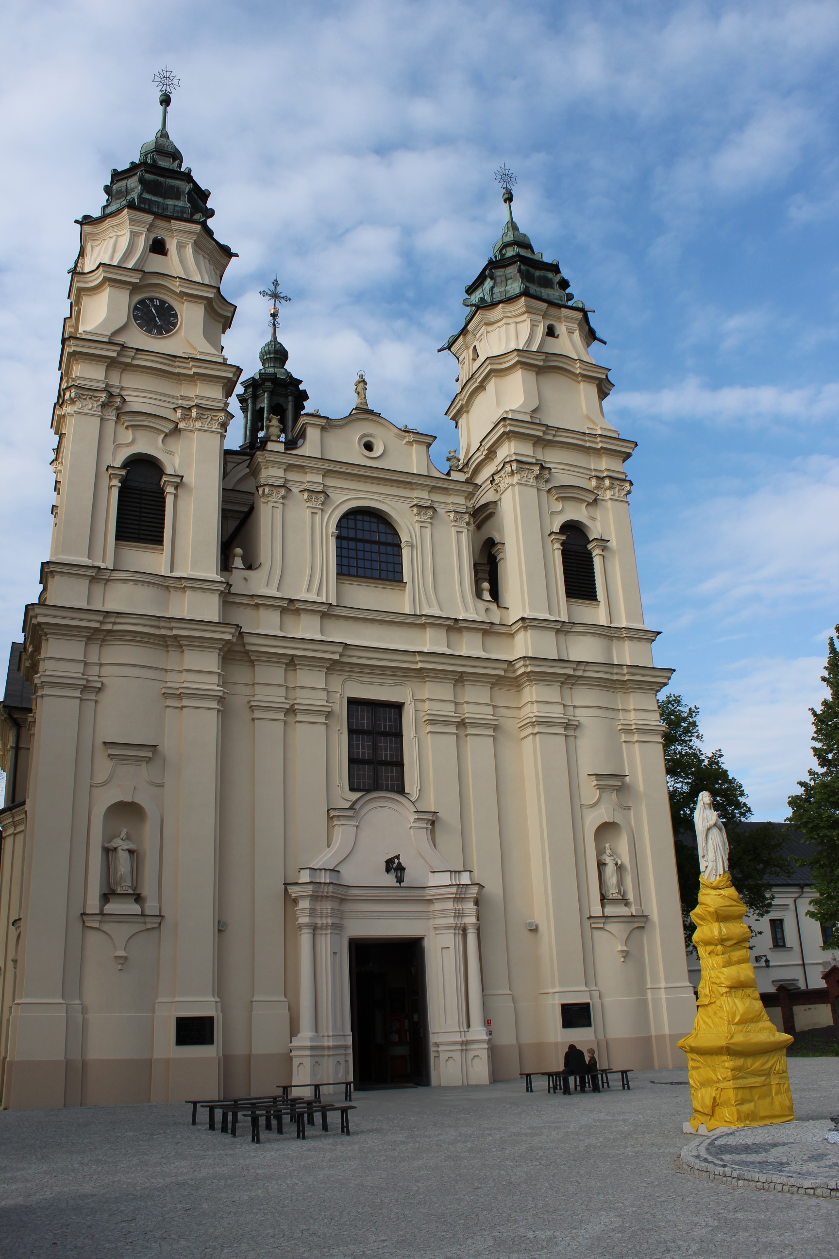 Saint Louis church in Włodawa